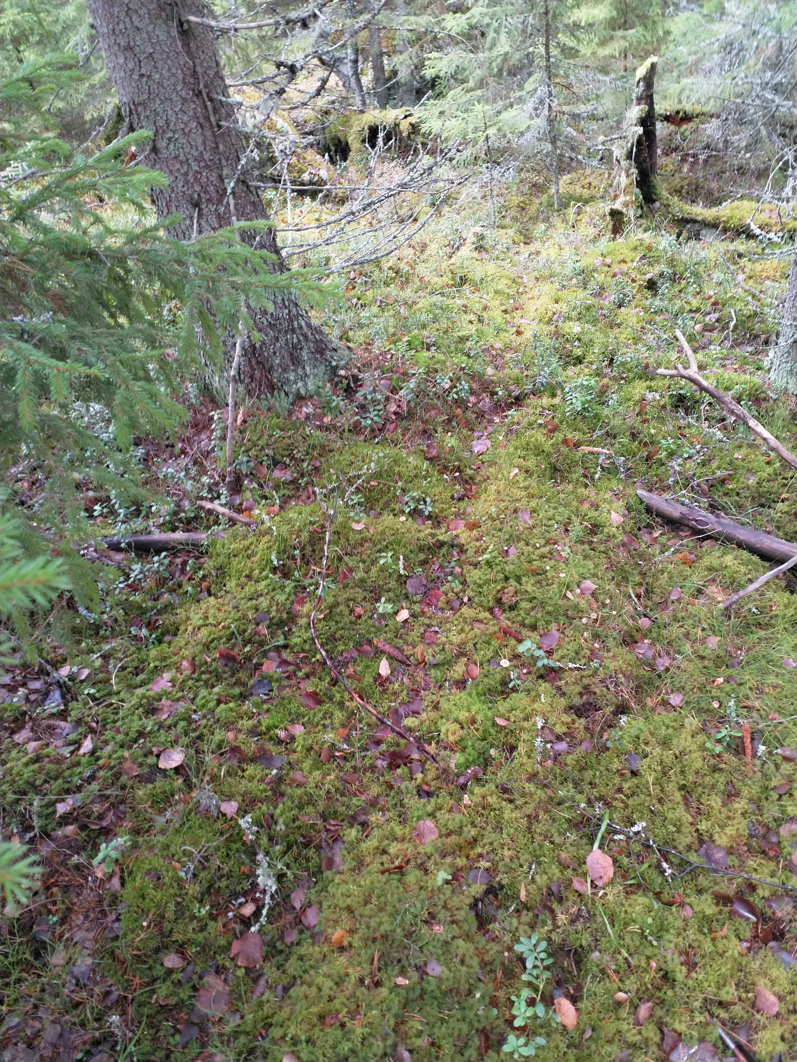 The path used by wildlife